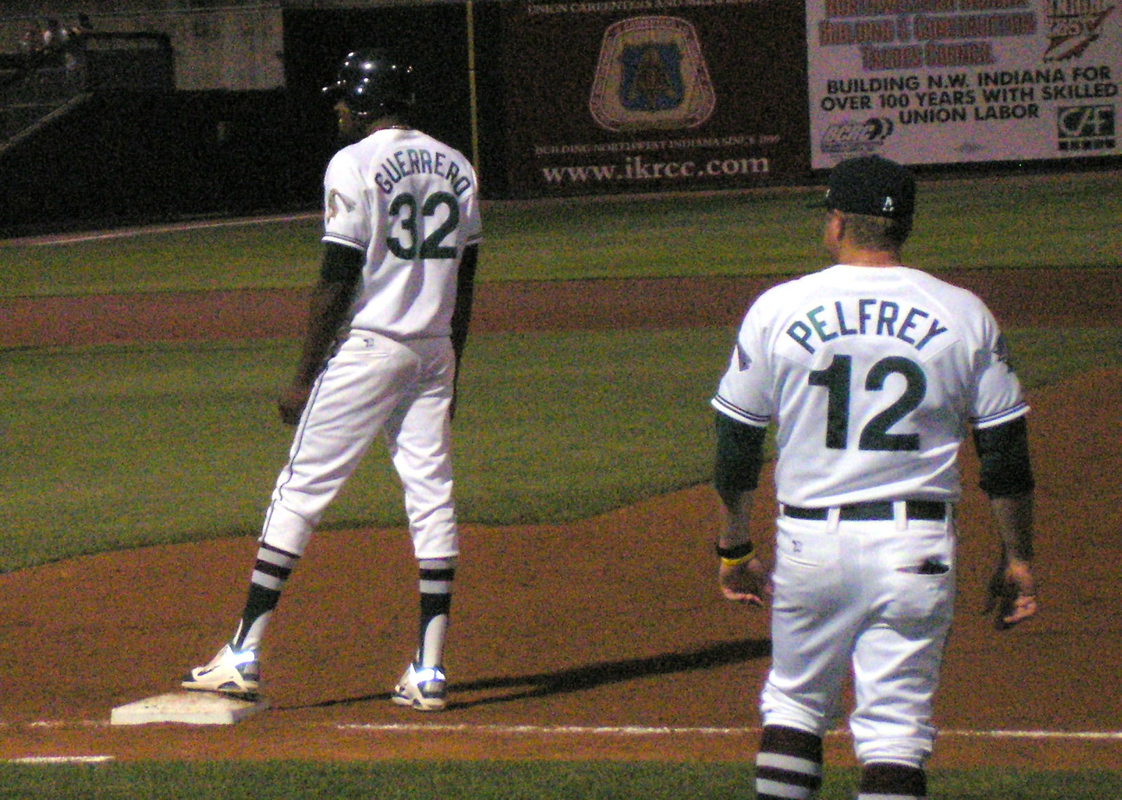 Cristian Guerrero (standing on first base) as a member of the Gary SouthShore RailCats in a 2011 American Association baseball game at U.S. Steel Yard against the St. Paul Saints, in Gary, Indiana.